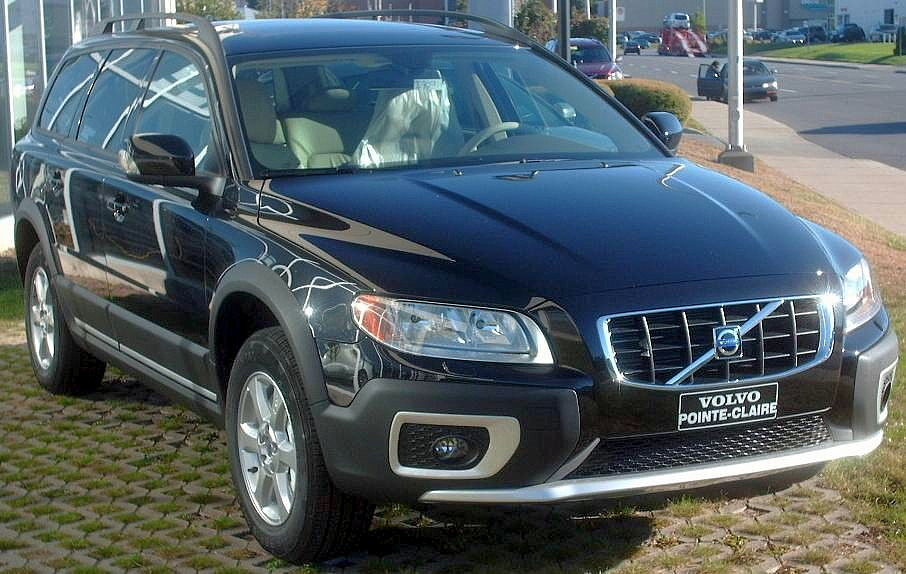 2008 Volvo XC70 photographed in Montreal, Quebec, Canada.